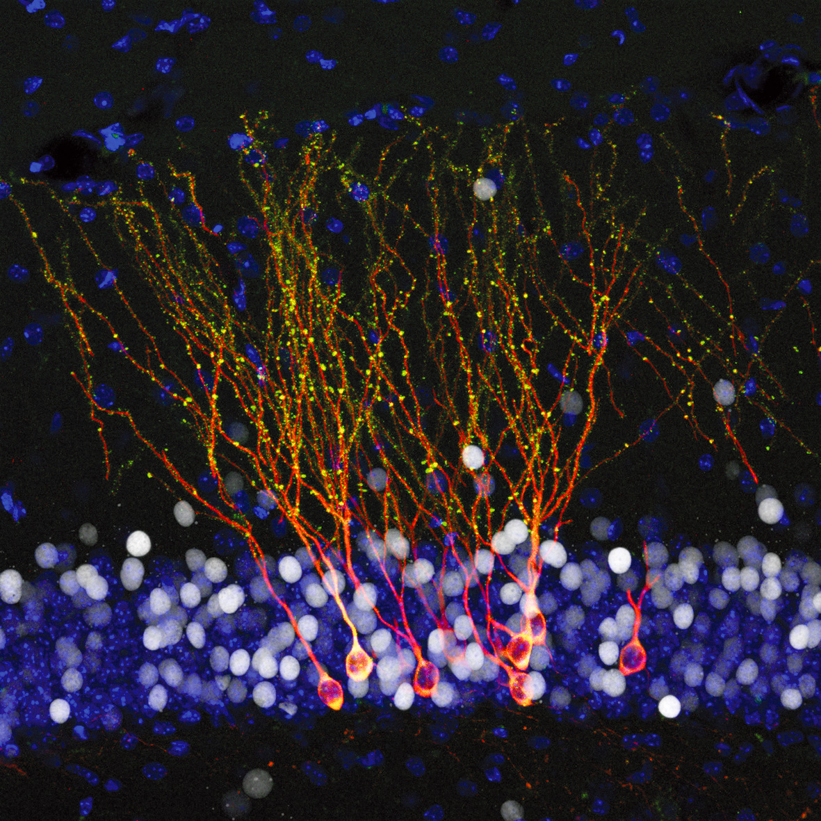 Retrovirus labeled granule neurons in the dentate gyrus of Alzheimer disease mouse model